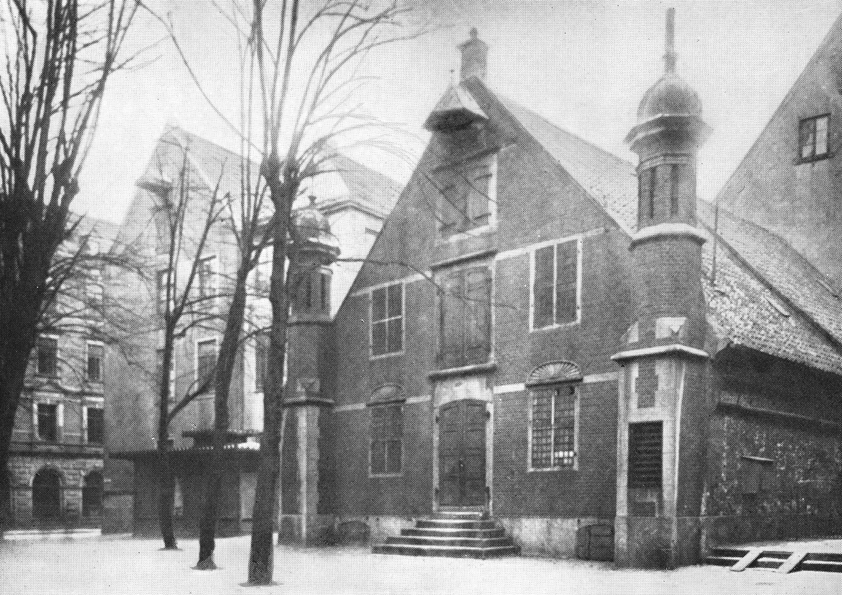 The Kleine Palatium (‘Small Palatium’) at the street Schoppelsteel in Bremen, Germany, built 1580 and dismanteled 1909.